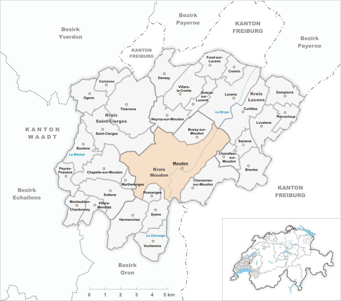 Municipality Moudon